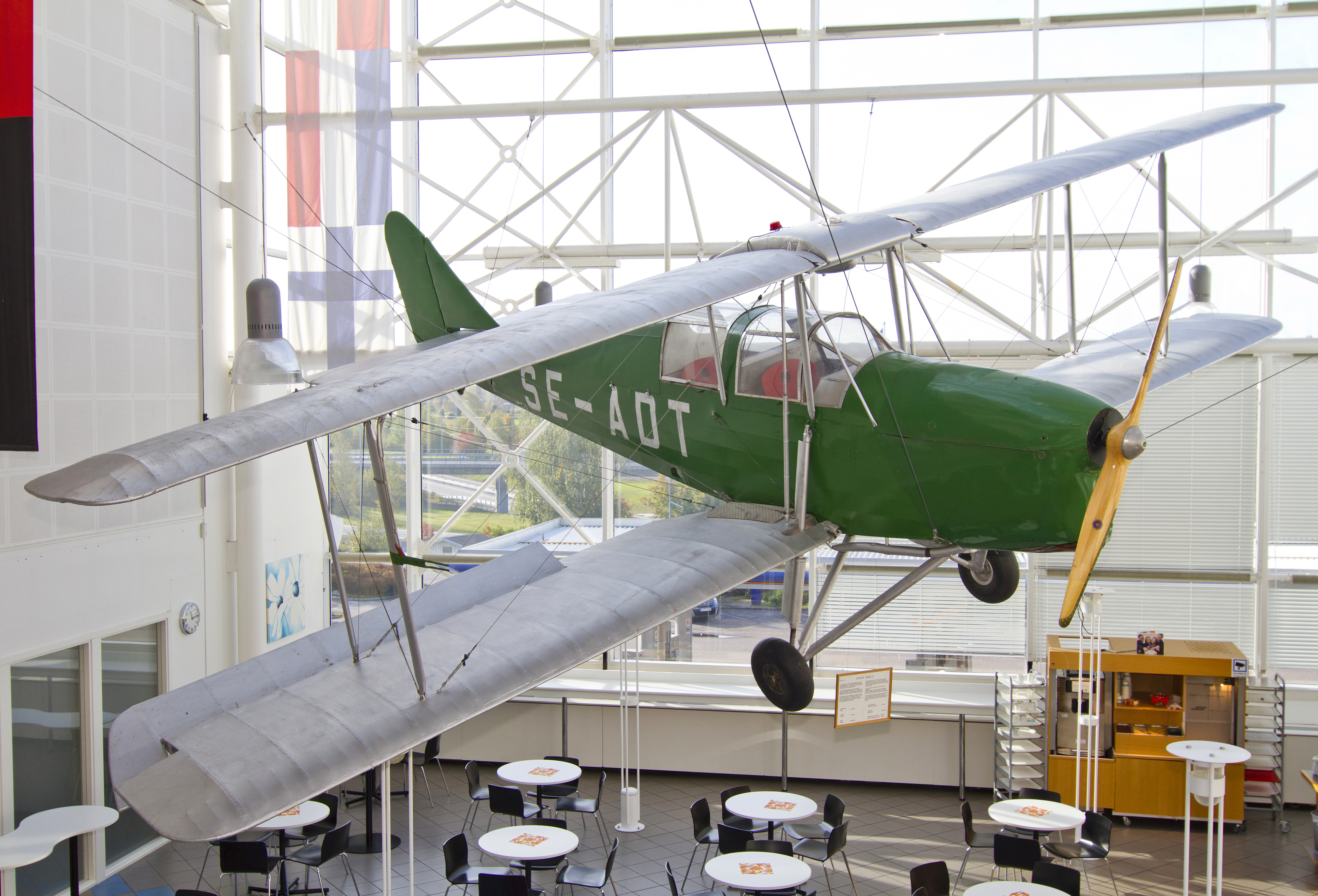 Avro 594 Avian Mk. IV Airplane. SE-ADT Ex. G-AAHD, cn 318, built 1929, sold to Sweden in 1933 where it was used as a float plane in the summer time. Major overhaul in 1943 where it was fitted with a closed canopy. Now hangs in a café in the shopping center at Arlanda Stad close to Arlanda Airport